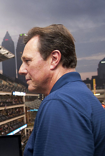 Long-time Indians player and TV broadcaster Rick Manning Other information Adapting from existing Wiki file